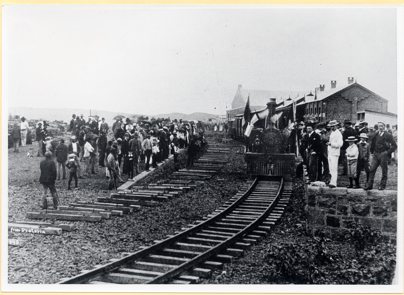 This photograph shows the arrival of the first train at Pretoria Station, Pretoria, South Africa, in 1893. Railroad construction in South Africa was spurred by economic development associated with the gold mining industry, following the discovery of gold near present-day Johannesburg in 1886. Pretoria, at the time the capital of the South African Republic, was connected by rail to Cape Town in 1893, and to Durban and Lourenço Marques (in the then-Portuguese colony of Mozambique) in 1895. The photograph is from the Van der Waal Collection at the Department of Library Services at the University of Pretoria, South Africa. The Van der Waal Collection forms part of an archive of South African architecture assembled by architectural historian Dr. Gerhard-Mark van der Waal. Railroad stations; Railroads; Train depots